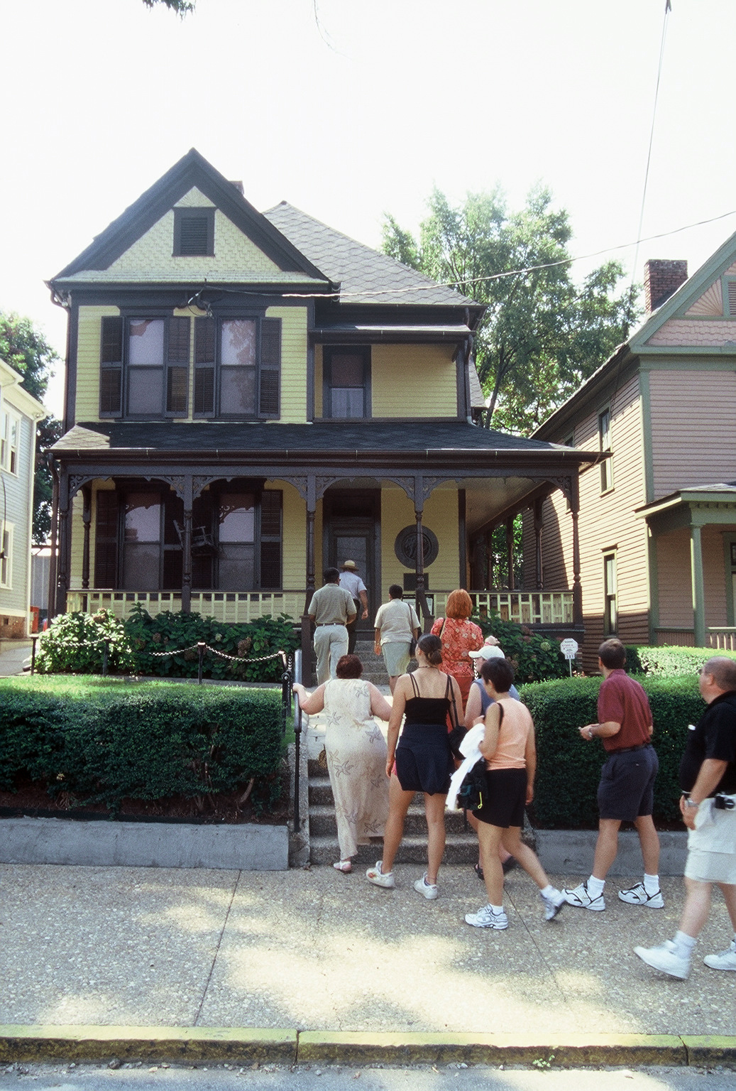 Just past noon on January 15, 1929, a son was born to the Reverend and Mrs. Martin Luther King, Sr., in an upstairs bedroom of 501 Auburn Avenue, in Atlanta, Georgia. It was in these surroundings of home, church (Ebenezer Baptist Church), and neighborhood (Sweet Auburn) that "M.L." experienced family and Christian love, segregation in the days of "Jim Crow" laws, diligence and tolerance.